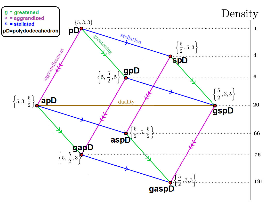 7 regular star 4-polytopes, and 1 regular 4-polytope related by aggrandizement, greatening, and stellation. Reworked from vector diagram by Gabriel Pallier, relations copied originally from "The Symmetries of Things" by John Conway, p. 406, Fig 26.2